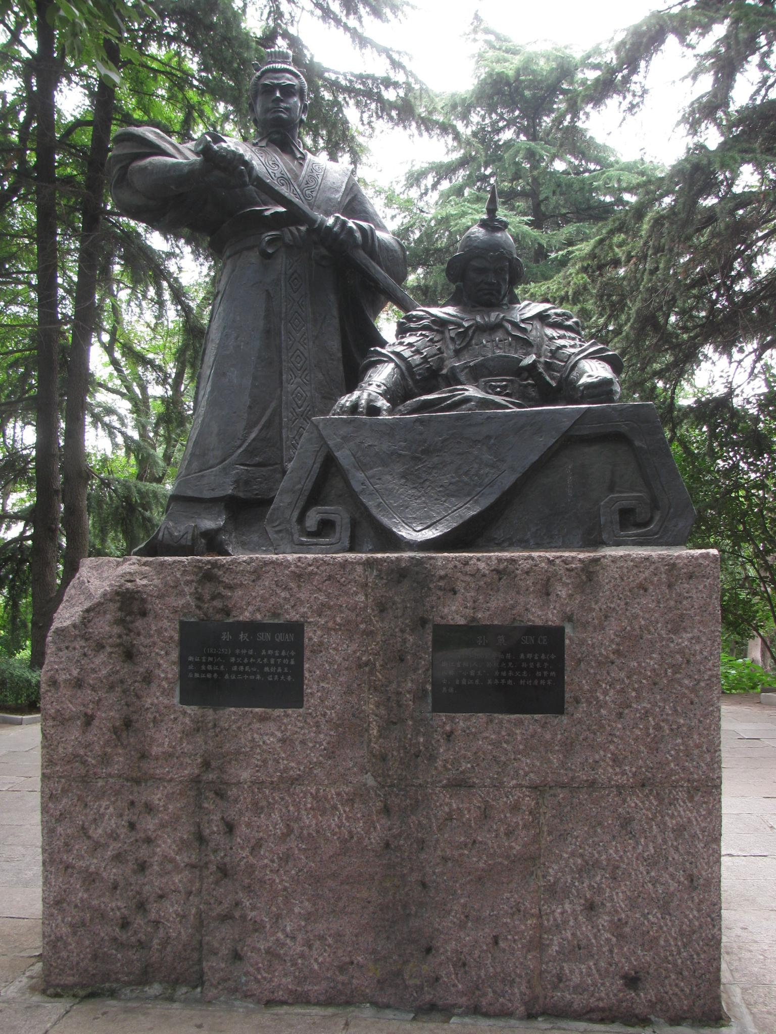 Statues of Sun Quan (left), founding emperor of Eastern Wu during the Three Kingdoms period of China, and his older brother Sun Ce (right), who laid the foundation of Eastern Wu.